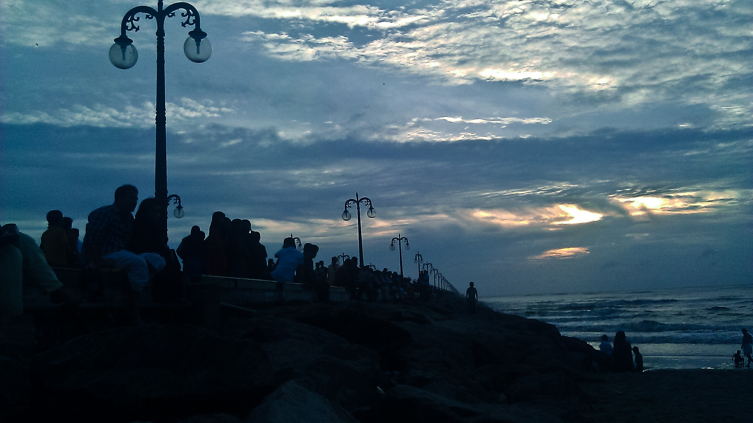 Beypore Pier(Local Name - Pulimuttu) is the 1 km long bridge made of stone stretching in to sea. It is made by piling stones like a pathway to sea